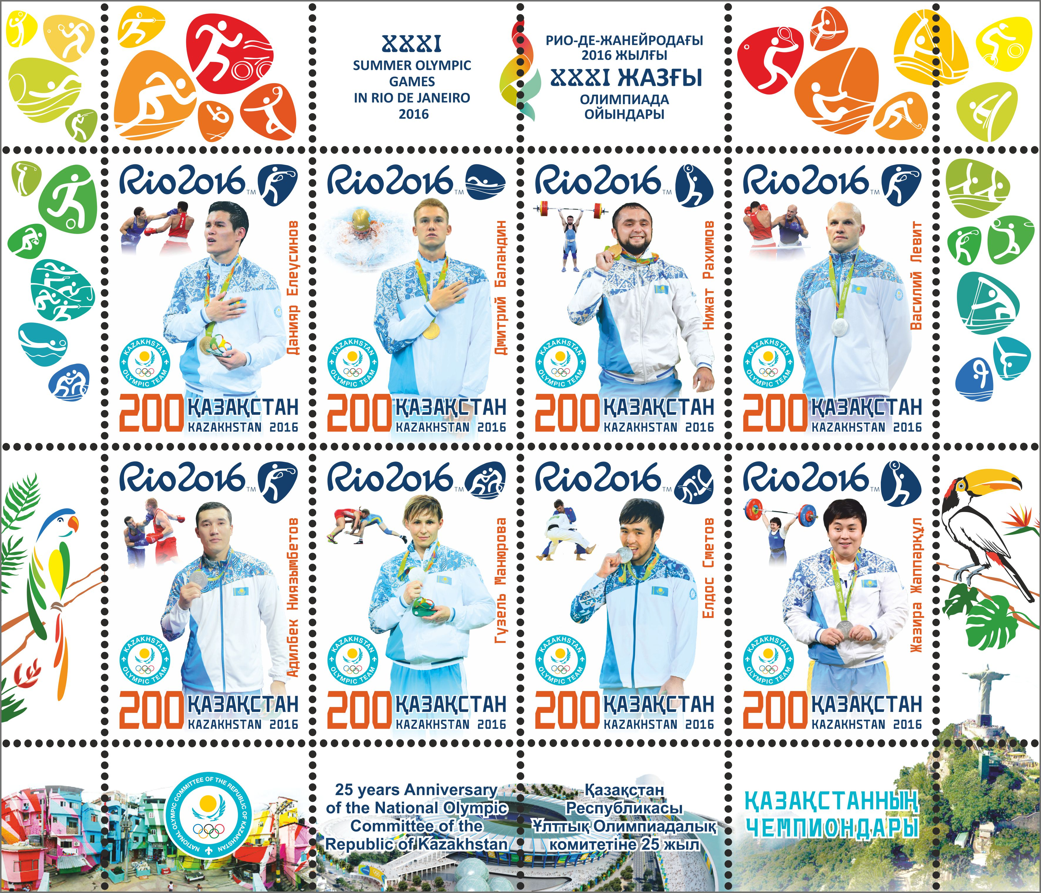 1004-1011. Sports. The XXXI Olympic Games in Rio de Janeiro.